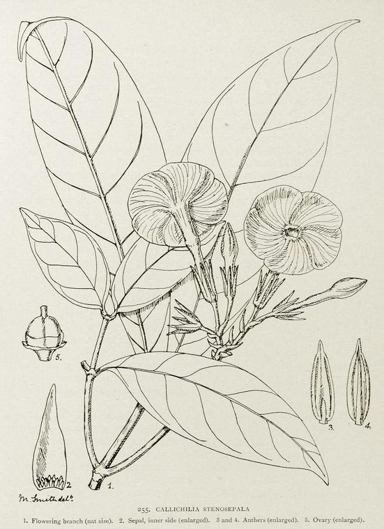 Callichilia stenosepala. 1. Flowering branch (nat. size). ; 2. Sepal, inner side (enlarged). ; 3 and 4. Anthers (enlarged). ; 5. Ovary (enlarged).